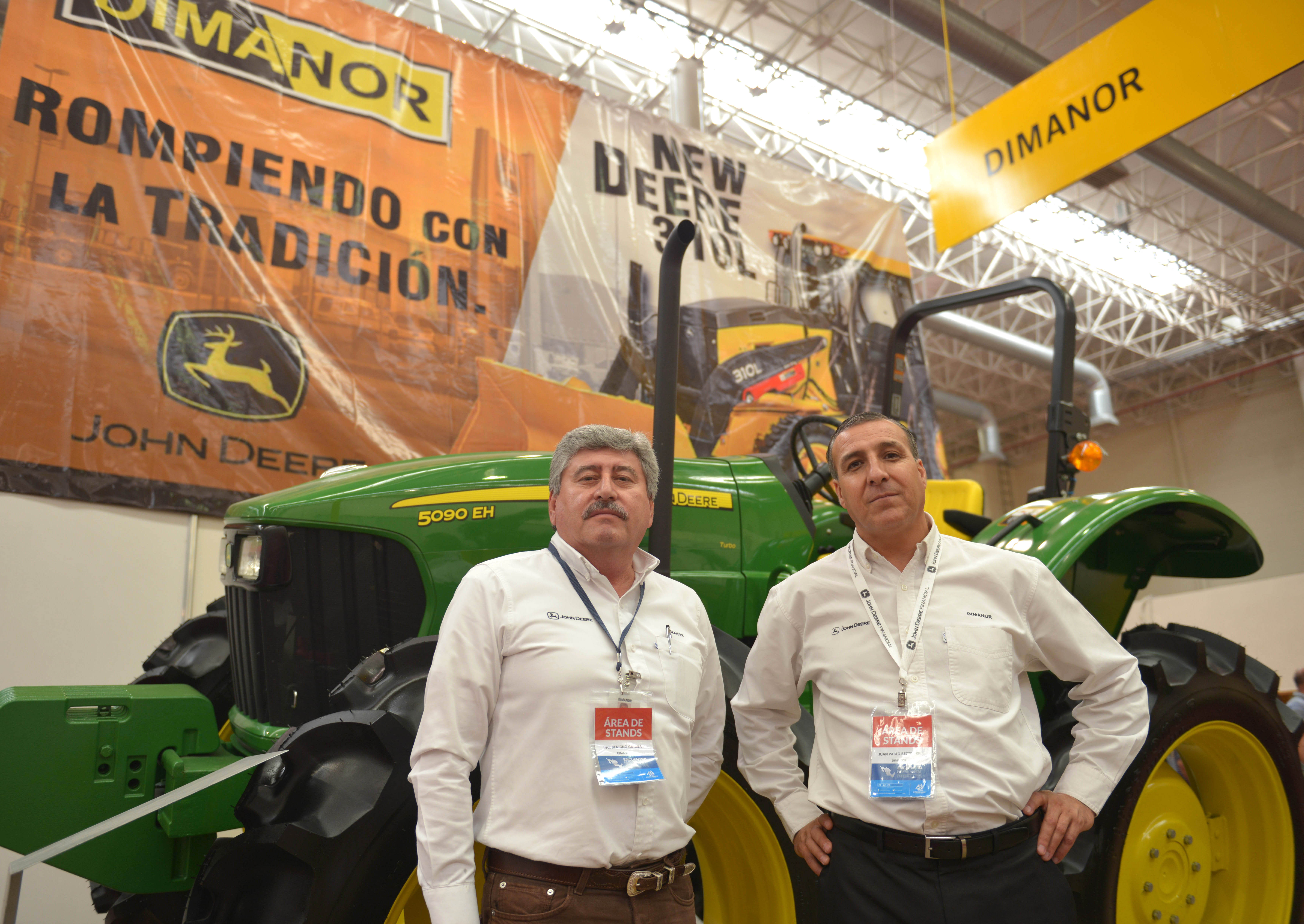 Encuentro Empresarial Coparmex. Confianza en la Justicia, condición para la Paz Social y el Progreso Democrático. Estado de Chihuahua. 22 de octubre de 2015.